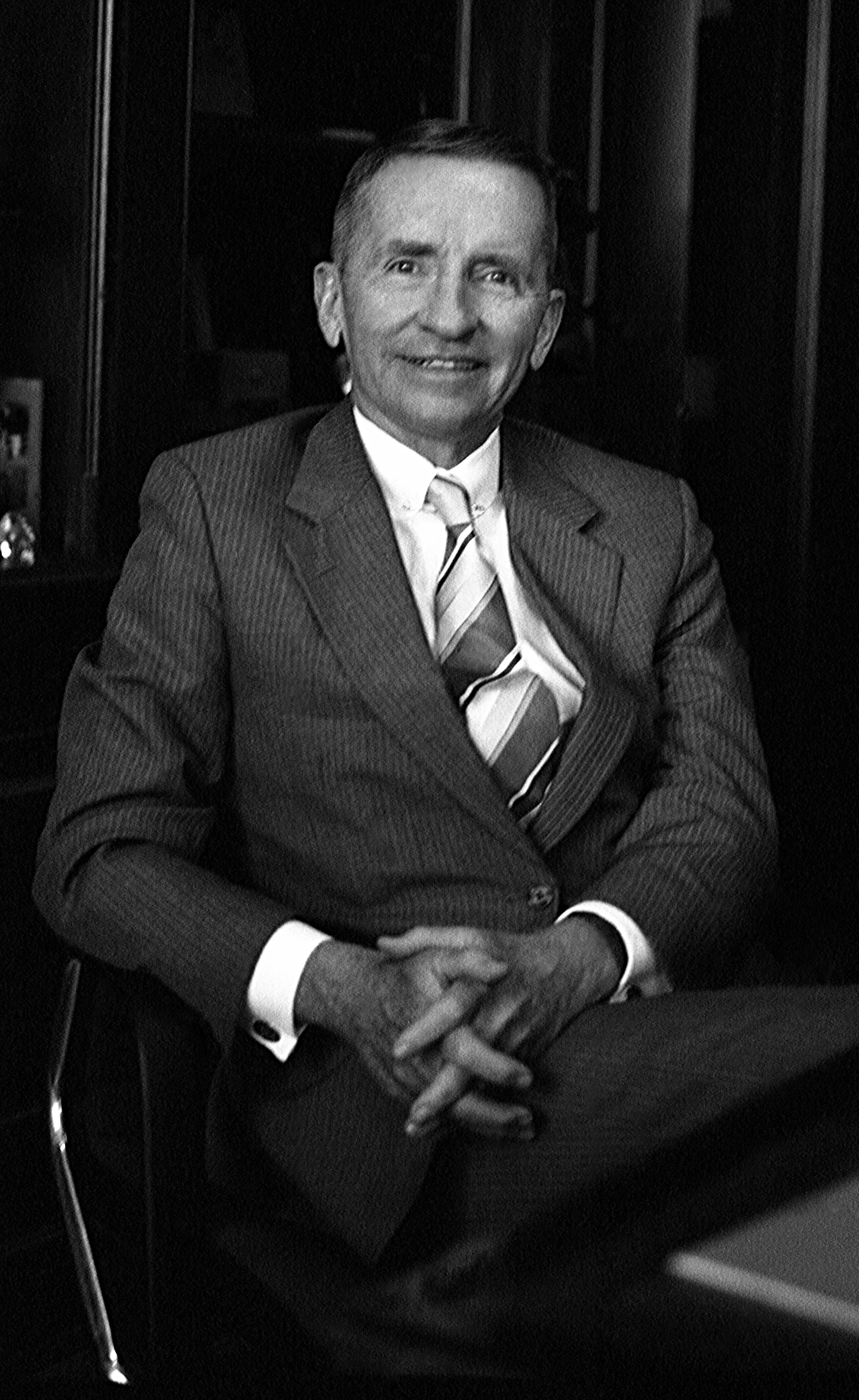 Ross Perot in his Dallas office, Texas